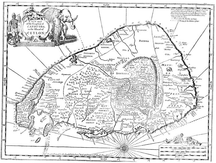 Coylot Wanees Contrey the Tamil country of the northeast as drawn in Robert Knox's 1681 CE map, published in London in his book An Historical Relation of the Island Ceylon.: Available online here